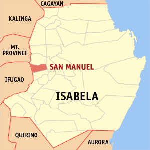 Map of Isabela showing the location of San Manuel